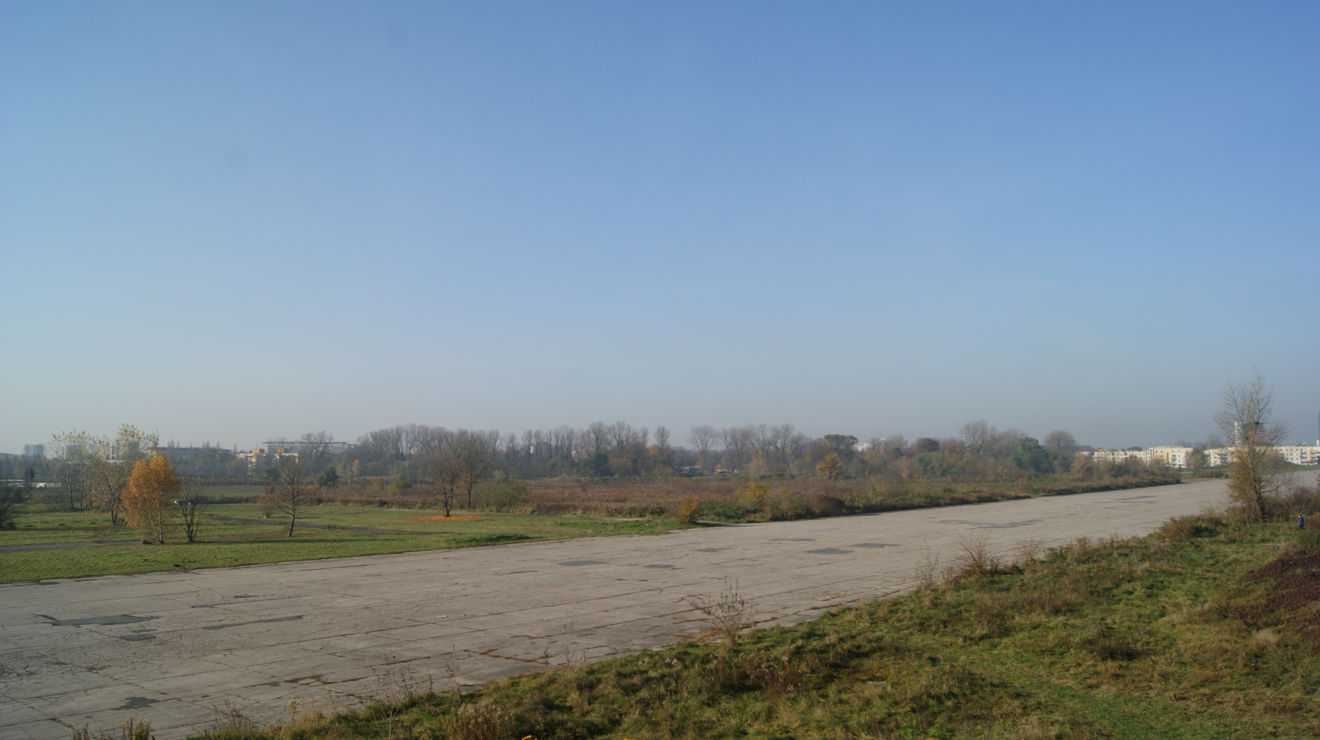 Old Airport Krakow-Rakowice-Czyzyny runway, Nowa Huta,Krakow,Poland